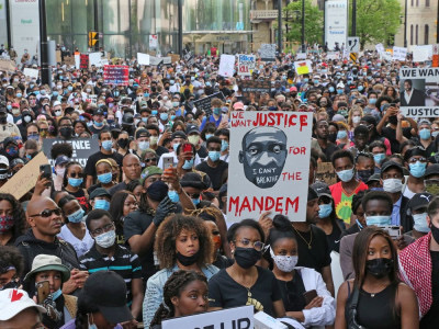 On 5 June, an estimated 20,000 people took part in protest and march in front of Parliament Hill, the United States Embassy, and continued past the Senate of Canada Building, to the Human Rights Monument. The march was named No Peace Until Justice Ottawa, and was a march of solidarity in honour of George Floyd, anti-black racism, and police brutality. The march was attended by politicians including Justin Trudeau, the Prime Minister of Canada. The event featured speeches and an eight-minute and 46 second moment of silence, before marching through Downtown Ottawa. The crowd chanted "Black Lives Matter", "No justice, no peace", and held up signs denouncing police brutality, including the murder of an unarmed black man by Ottawa Police. Some businesses and banks downtown boarded up windows in advance of the march, although there were no reports of damage and only a few minor physical altercations with police occurred